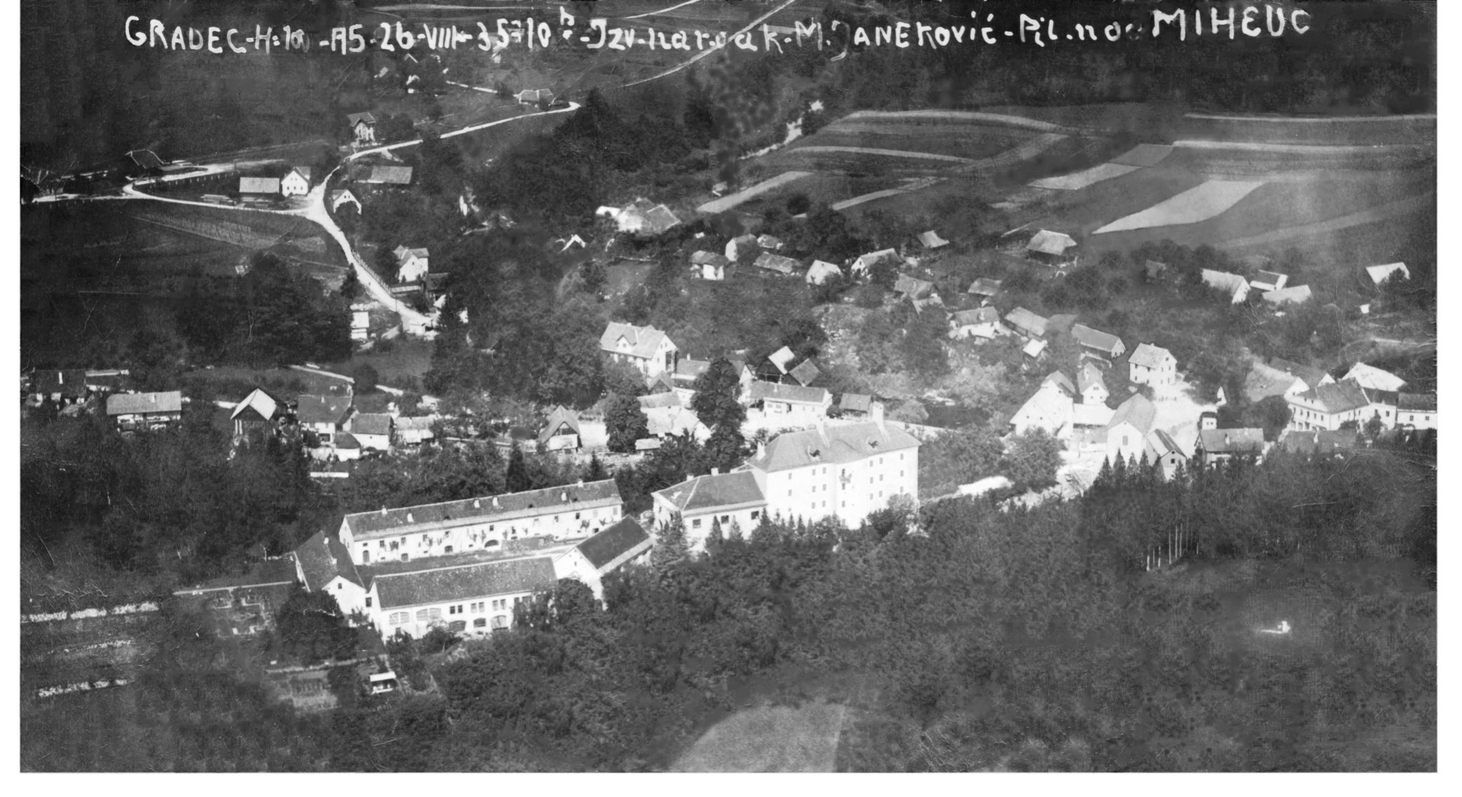 Most likely one of the first aerial photographies of a village in the Bela krajina region in Slovenia. Erroneously the name of the village Gradac is written the wrong way "Gradec" in the comment handwritten on the picture. The picture was taken during a flight-over by pilot Peter-Pero Jakofčič from Krasinec in Bela krajina. The name of the photographer is unfortunately not known.